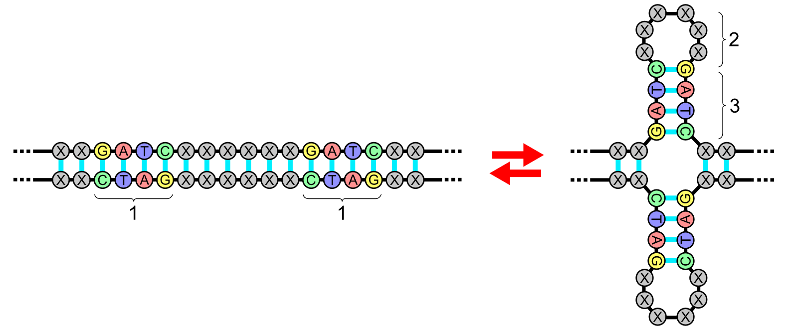 Palindrome of DNA structure 1.Palindrome 2.Loop 3.Stem